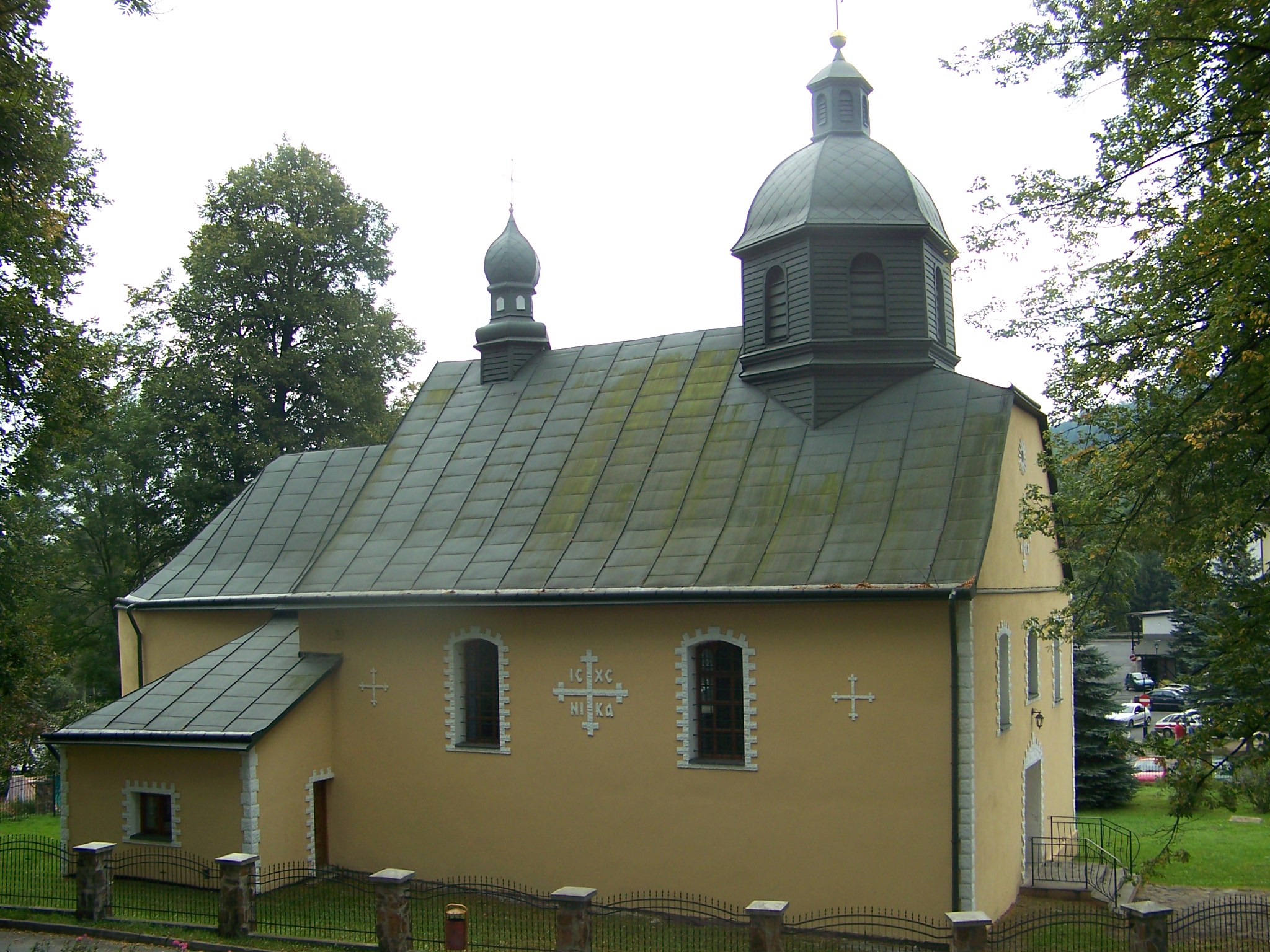 Greek Catholic Church in Ustrzyki Dolne, Poland